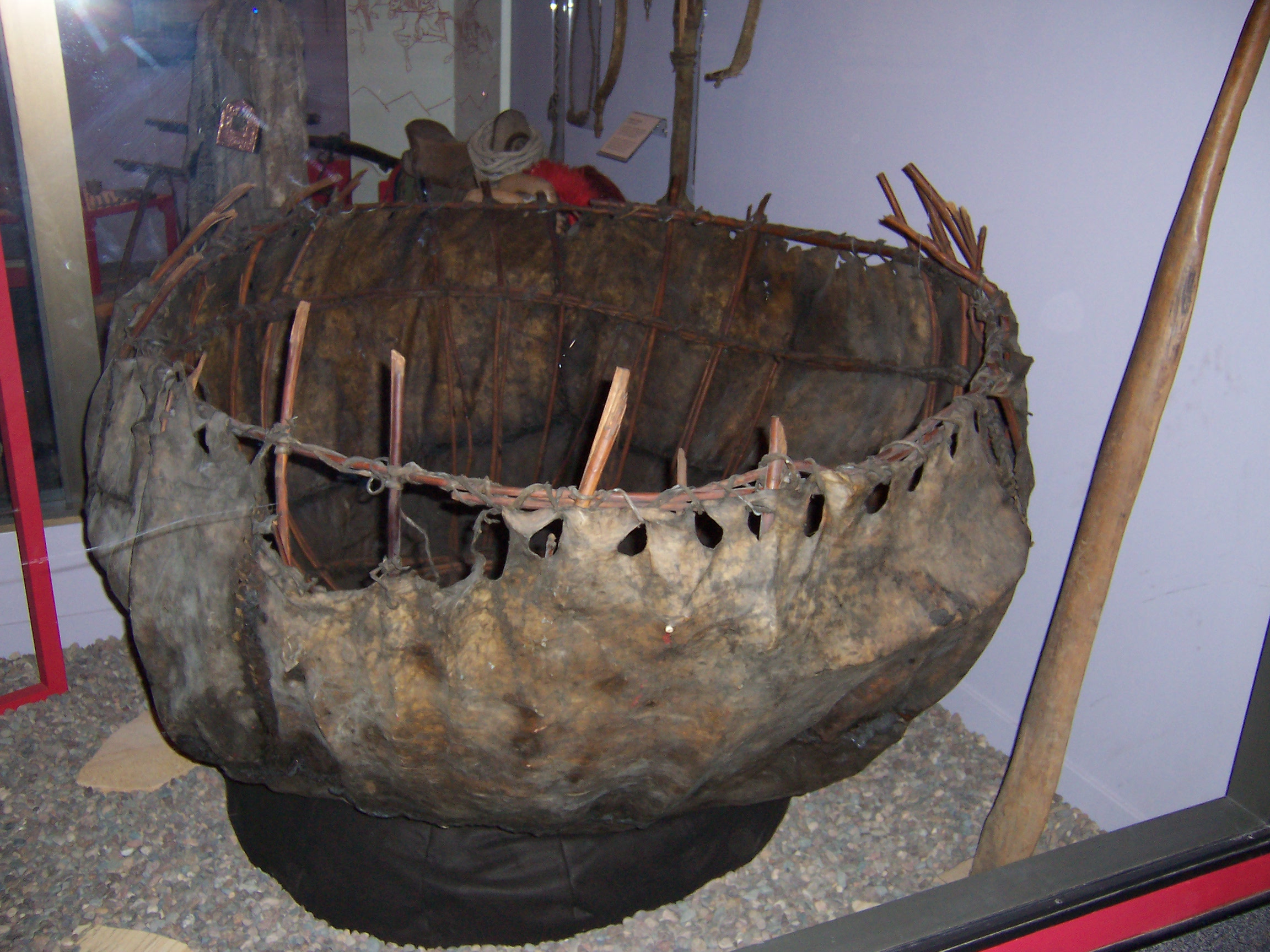 Coracle ( Kudru or Ko-wa ) of Tibet Field Museum of Natural History, Chicago I Ancheta Wis, agree to multi-license all my images which were taken at the Field Museum of Natural History